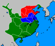 Domain of Yuan Shao (red) and Cao Cao's (blue) prior to the Battle of Guandu.